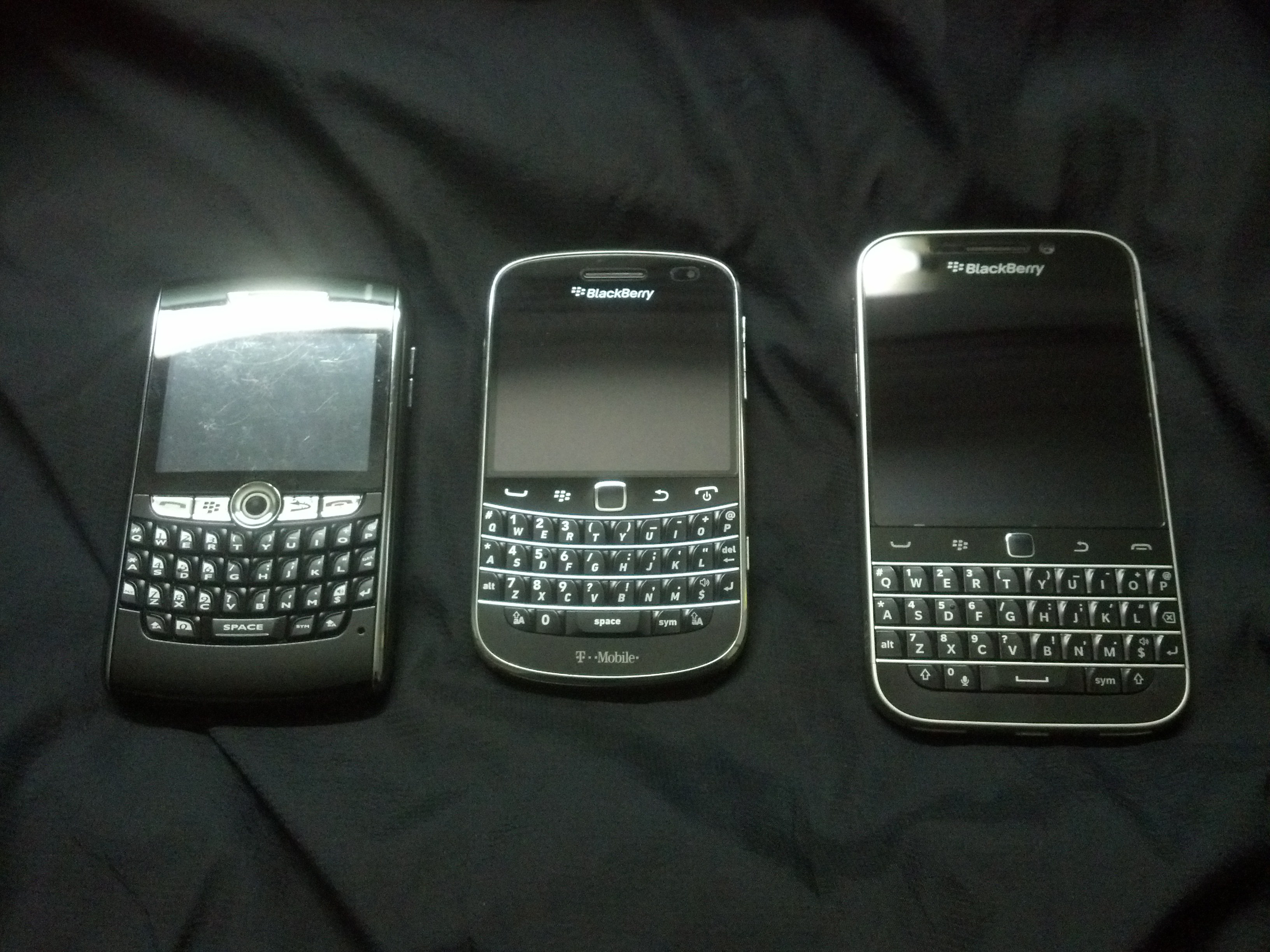 BlackBerry 8820, BlackBerry Bold 9900 and BlackBerry Classic for comparison.